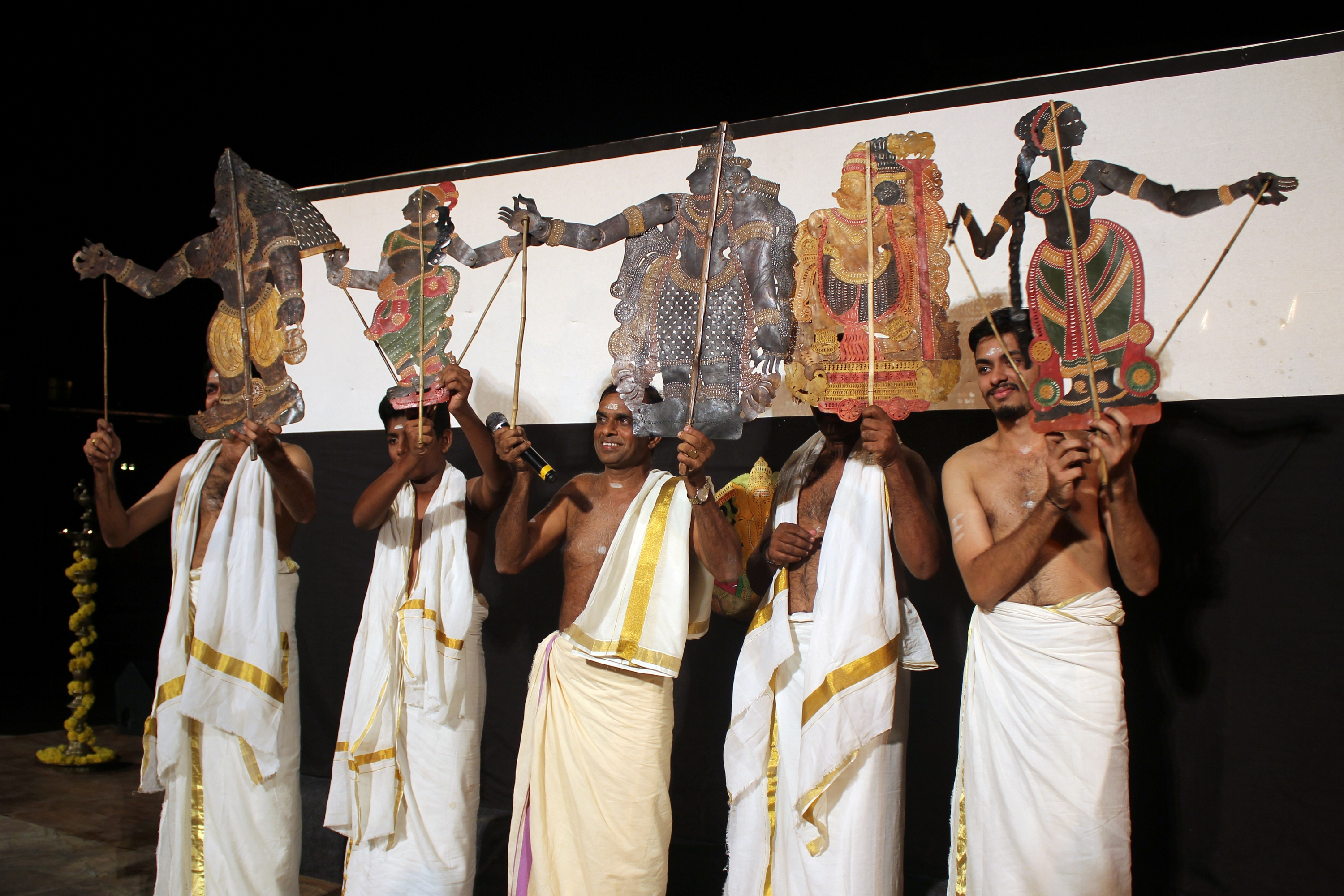 Tholpava koothu shadow puppet artists